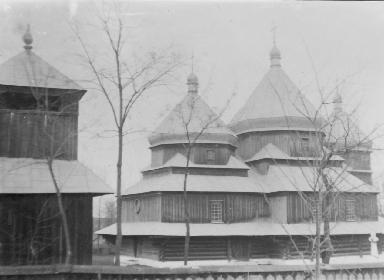 Church in Șișcăuți, Cozmeni, Ukraine (image from the archive of the Metropolitan of Moldavia, 1936, free of copyright)